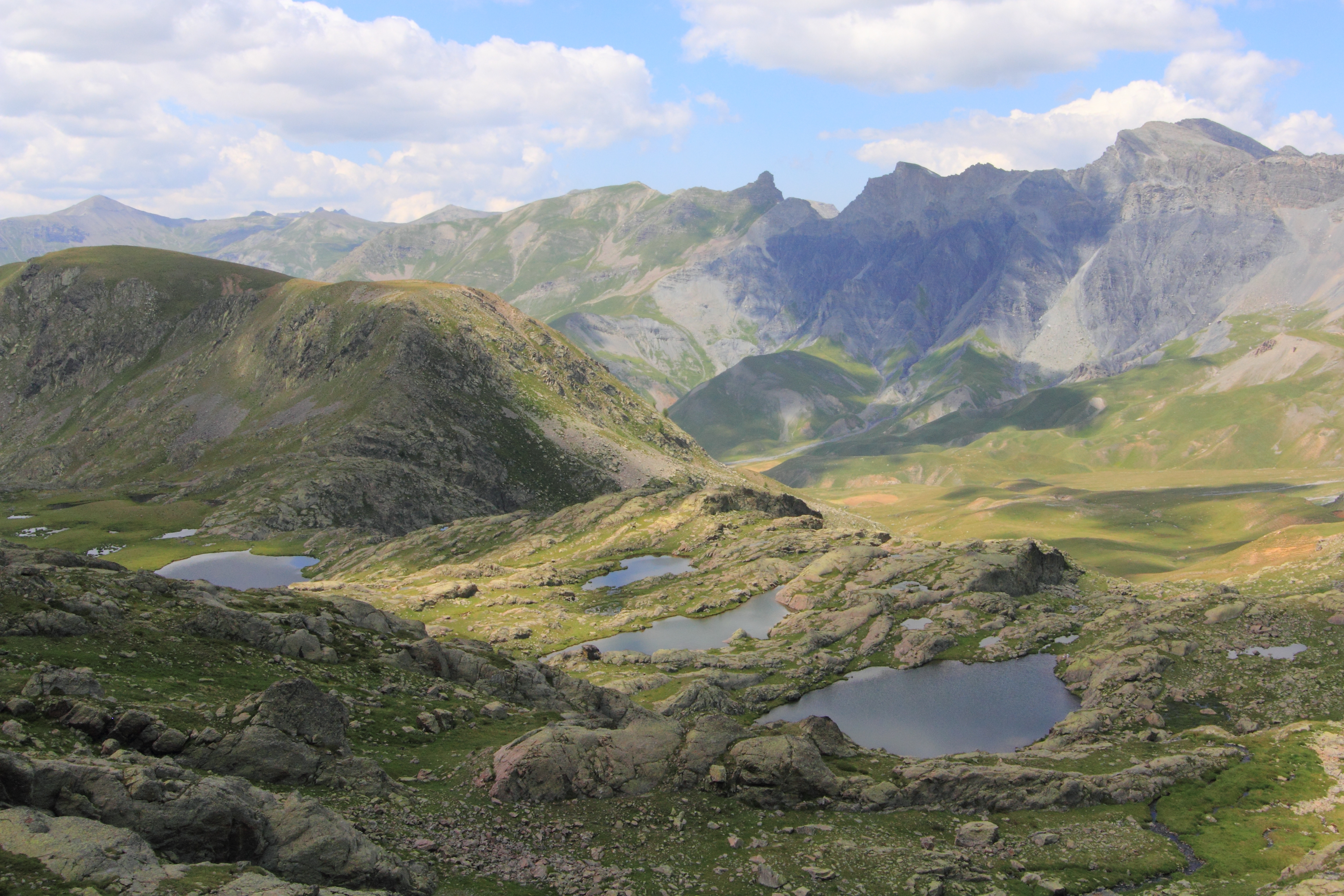 The lakes of Morgon (Tinée, French Alps). Left: the Big Lake of Morgon (2427 m) ; center: the Median Lake (2470 m) and the Higher Lake (2480 m). Background: the Salso Moreno valley, then the black rocks of the Roubines Nègres, and the summits of the Crête de la Tour.